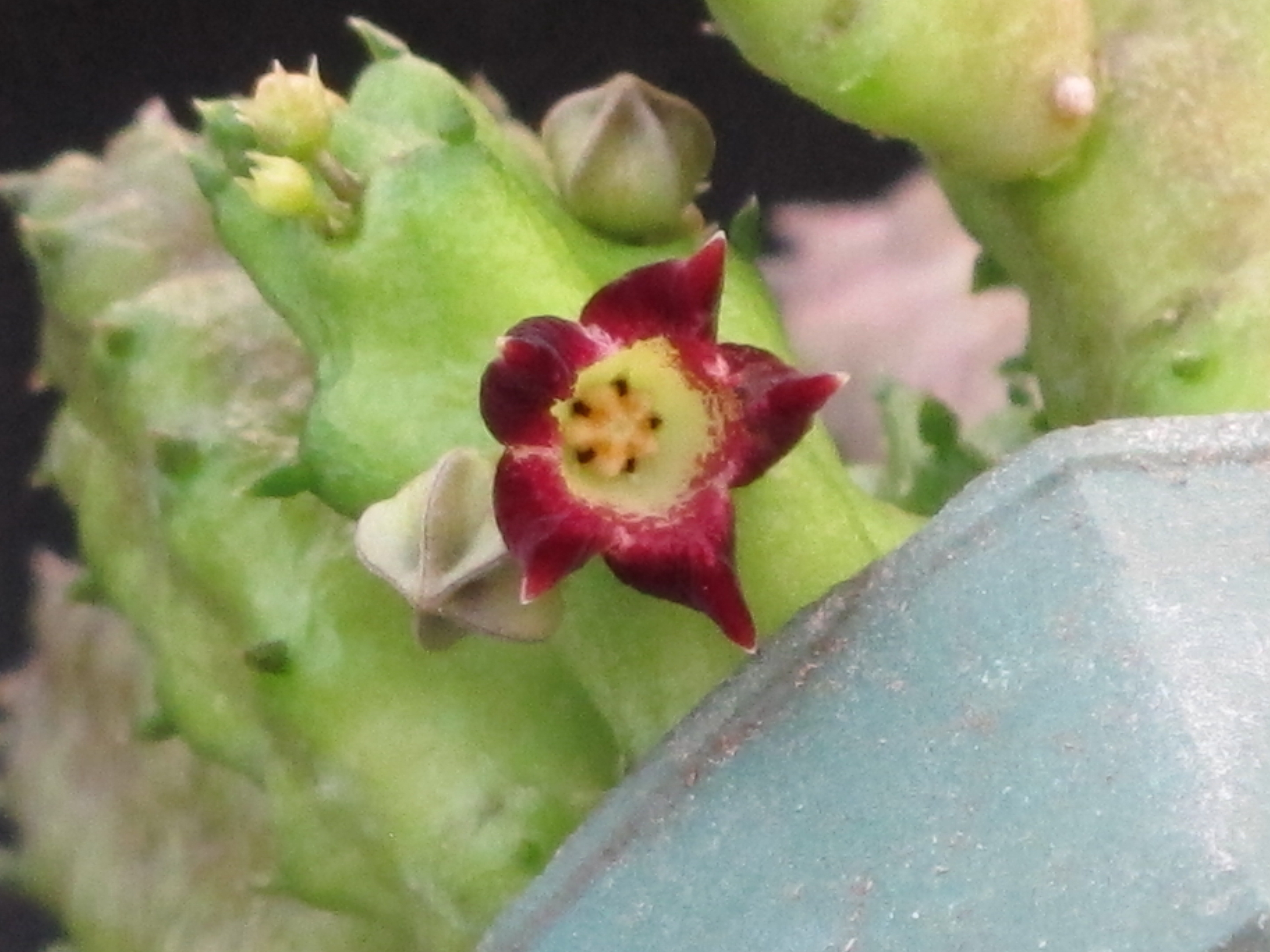 Cultivated, Biological Sciences greenhouse, Florida International University, Miami, Florida, USA.